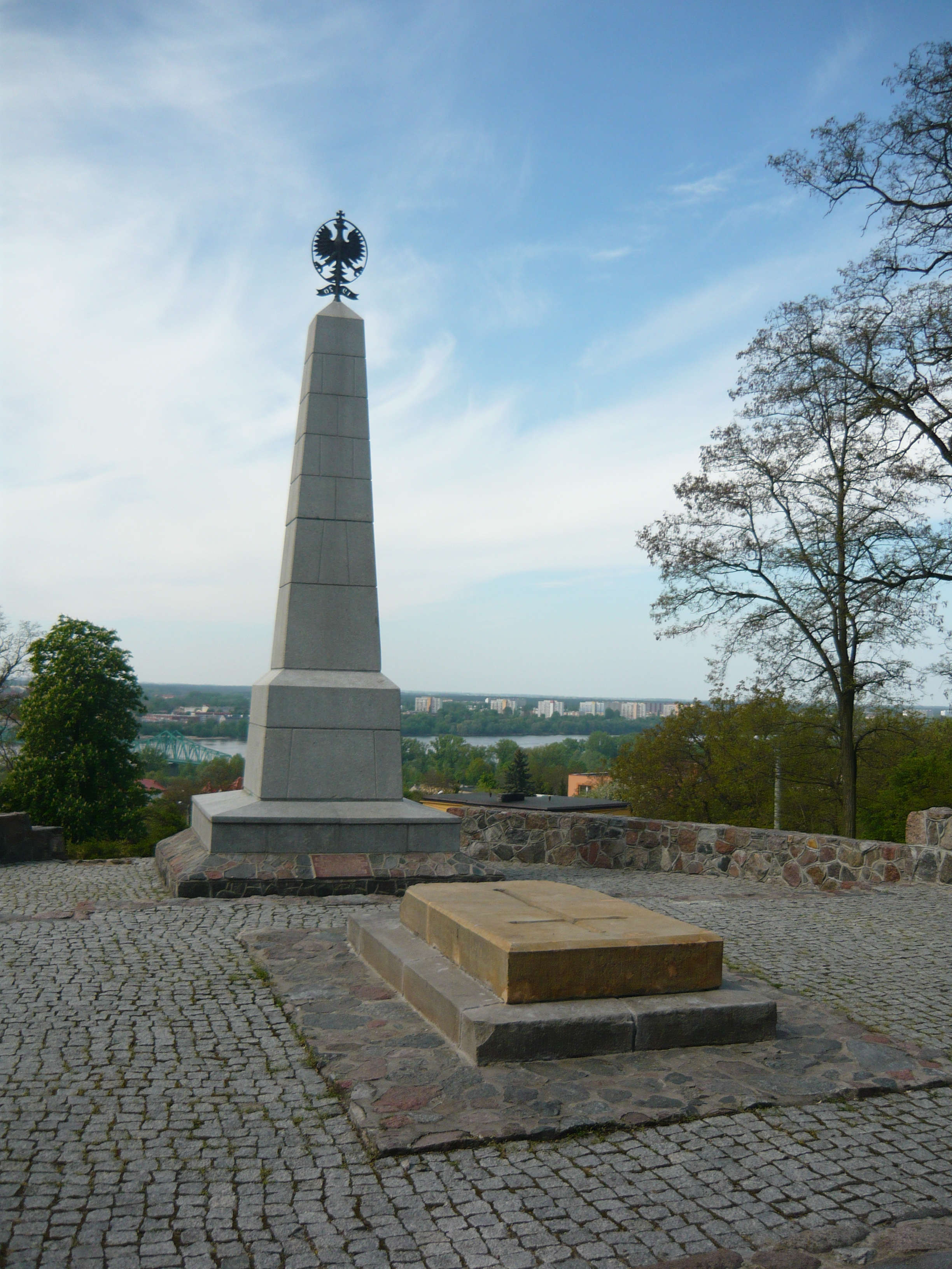 Monument of Wisła Defenders in 1920 and his common grave on Zawiśle Hill in Włocławek.